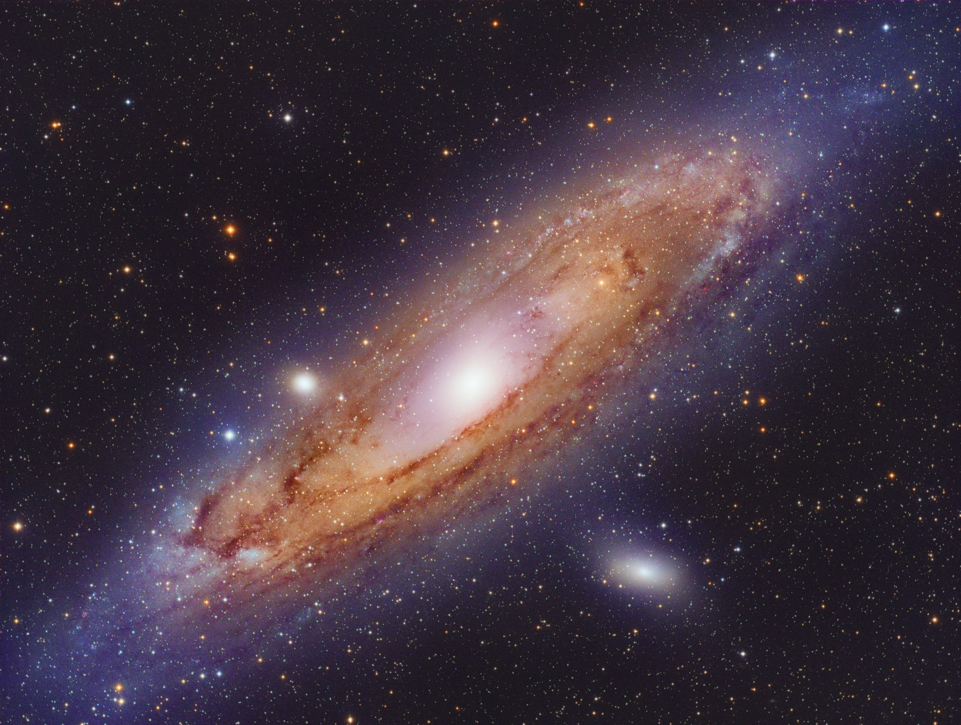 Light of a trillion suns: The Andromeda Galaxy is the nearest large spiral galaxy from the Earth, and contains within itself over a trillion stars. The light recorded in this image ended a journey after 2.5 million years traversing across the void of intergalactic space. Photographed with personal equipment